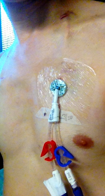 This is a photo of a hickman line two-lumen catheter inserted on the patient's left side. Scars at the base of the neck indicate the insertion point into the left jugular vein. The line runs subcutaneously over the clavicle to a point about seven centimeters below, where it emerges from the chest and splits into the two lumens. The catheter has an antibiotic collar around the exit point and is held fast using a Tegaderm transparent film dressing. A piece of tape with the date of the dressing has been affixed. Each lumen has a clamp for closing off the line and each terminates with a threaded end for drawing blood for analysis, and attaching lines to infusion pumps, and apheresis and dialysis machines.